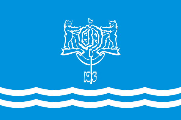 Flag of Yuzhno-Sakhalinsk, 2005, Sakhalin Region, Russia